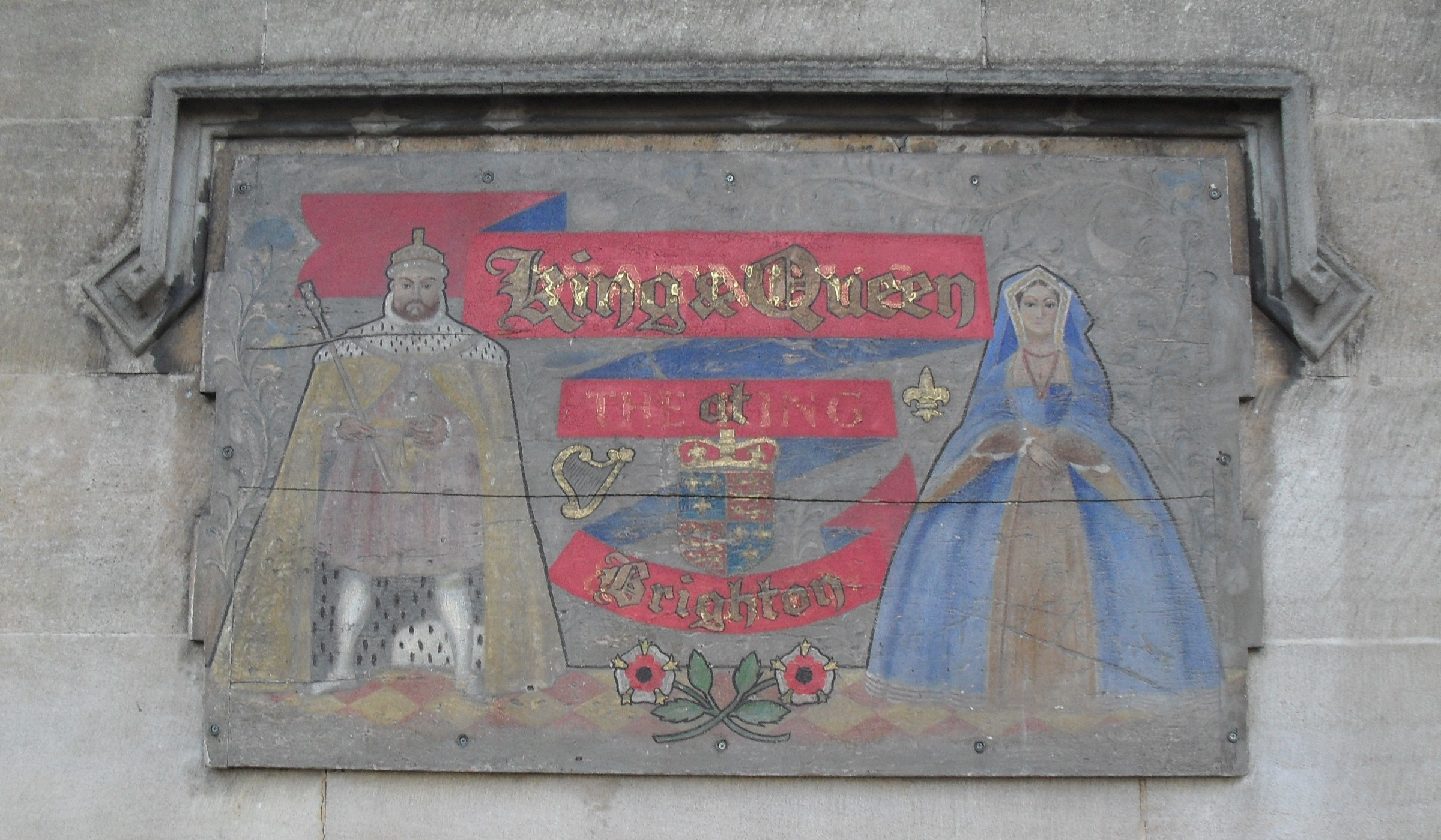 The King and Queen, Marlborough Place, Brighton, City of Brighton and Hove, England. An 18th-century pub rebuilt in extravagant Mock Tudor style by local architects Clayton & Black in the early 1930s. This picture shows Henry VIII and Anne Boleyn on a painted panel, overlaying the former Watney's Brewery title. Listed at Grade II by English Heritage (NHLE Code 1381770)